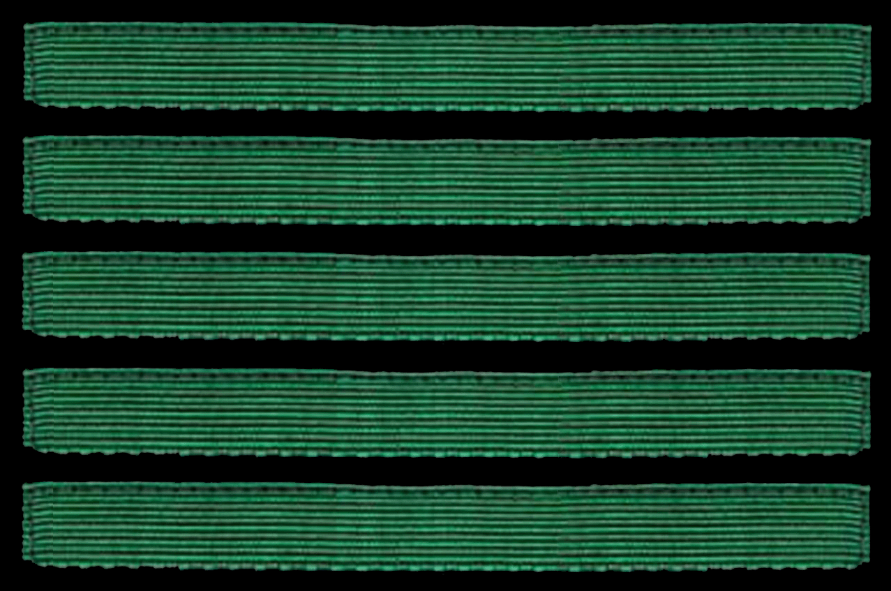 Rank insignia of the Nazi-Wehrmacht (Heer, Army) and Waffen-SS to tress articles without shoulder boards (summer camouflage suit until 1942-1945); here cuff titles to the ranks: Fahnenjunker-Stabsfeldwebel / Stabsfeldwebel, SS-Sturmscharführer, today NATO OR-8 comparable.